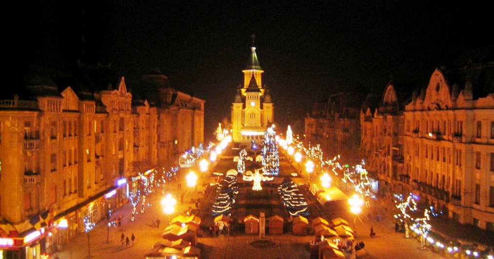 The Victory Square in Timisoara; Taken from the Opera House Balcony during Christmas celebrations.